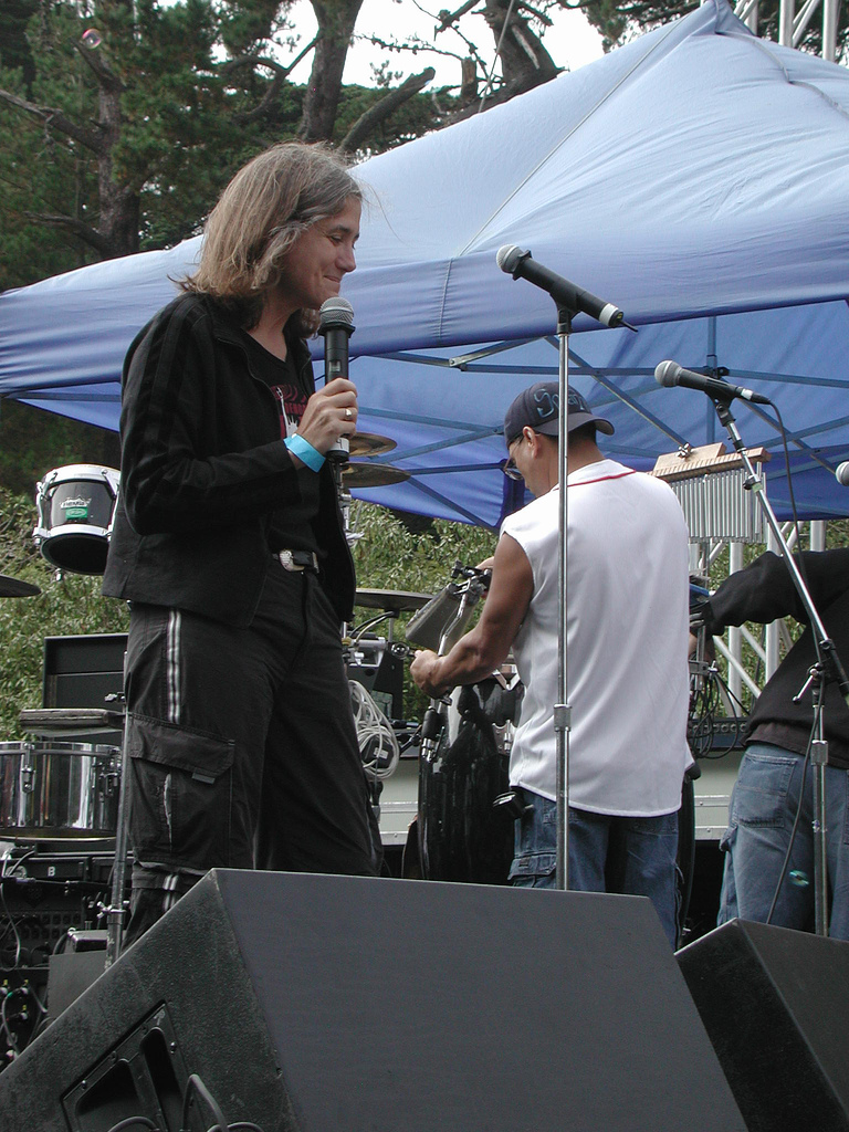 Amy Goodman